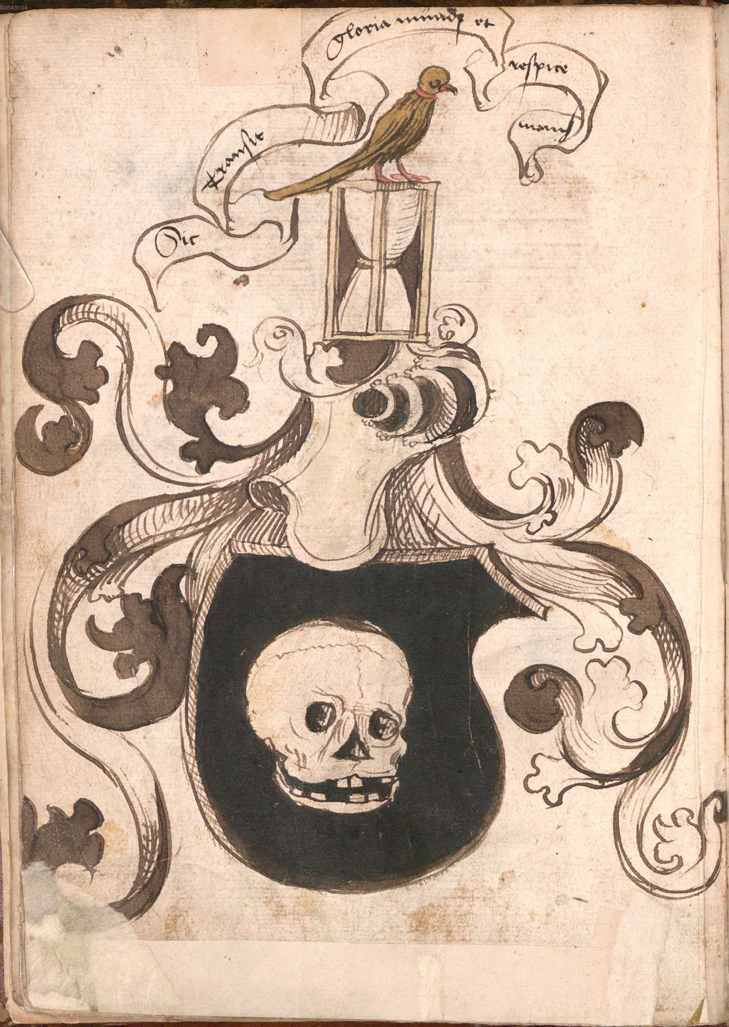 Attributed coat of arms of death in Wernigerode/Schaffhausen armorial (see also File:Wernigeroder Wappenbuch 393.jpg).